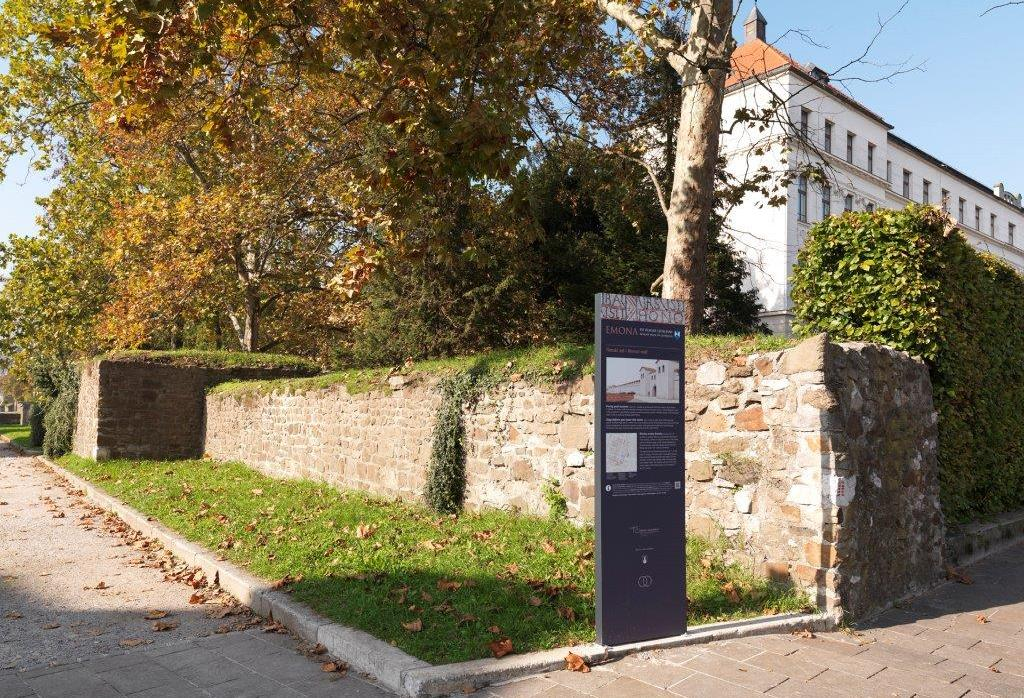 South Emona / Roman wall; one of the points on round footpath connecting 10 antiq remains in Ljubljana